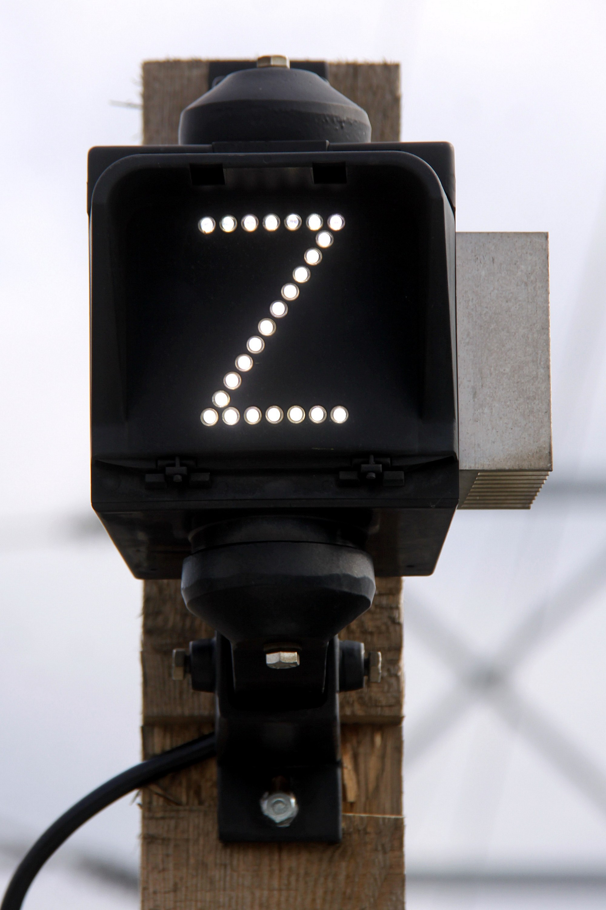 Total remodeling, renovation and modernization of Neunkirchen railwaystation.